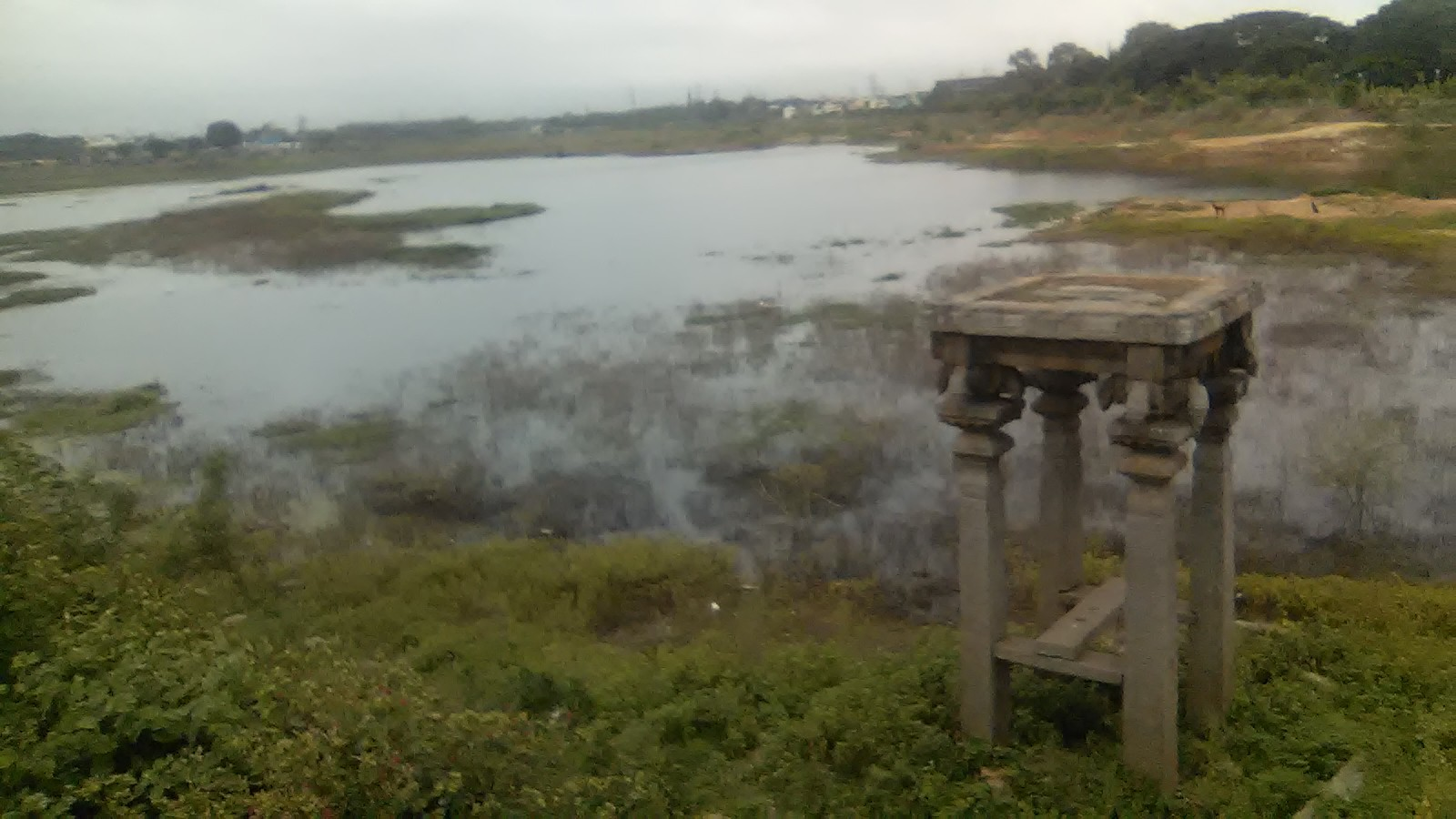 ராமநாயக்கன் ஏரியும் அதன் தூம்பு மண்டபமும்